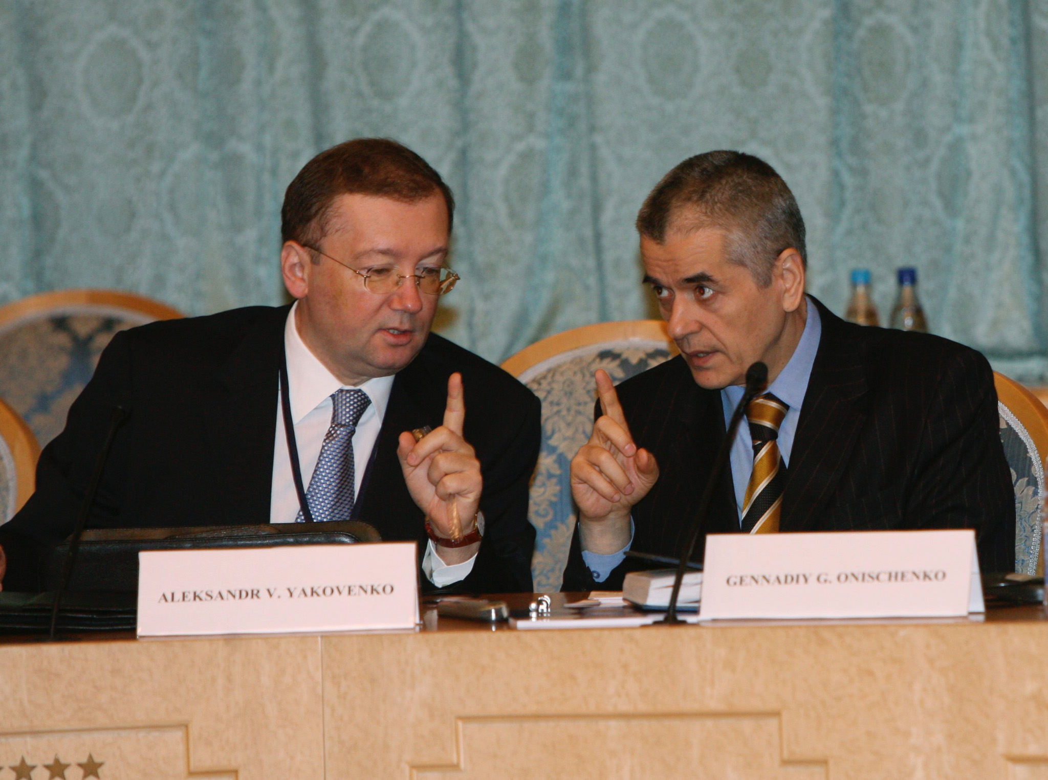 Russia’s chief epidemiologist Gennady Onishchenko, head of the Federal Service for the Oversight of Consumer Protection and Welfare, and Deputy Foreign Minister Alexander Yakovenko (right to left) attending the international conference “Global Threats – Global Actions. Promotion of the G8 Summit's Initiatives to Counter Infectious Diseases” held in Moscow.